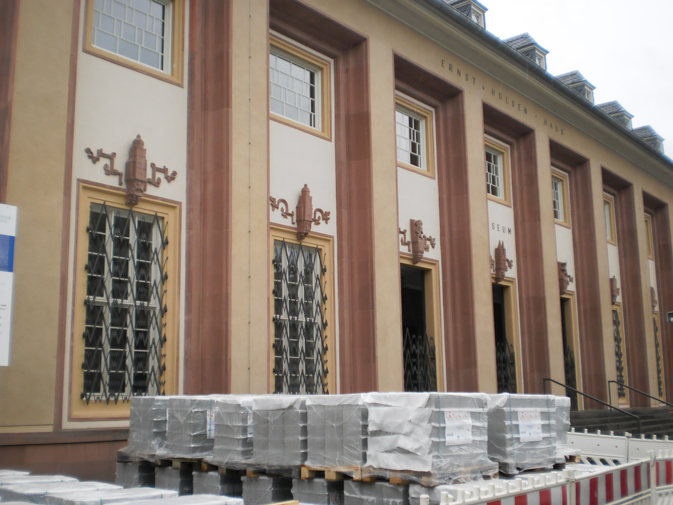 Ernst-von-Hülsen-Haus in Marburg.